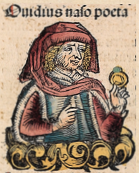 This is a part of a scan of an historical document: Title: Schedelsche Weltchronik or Nuremberg Chronicle